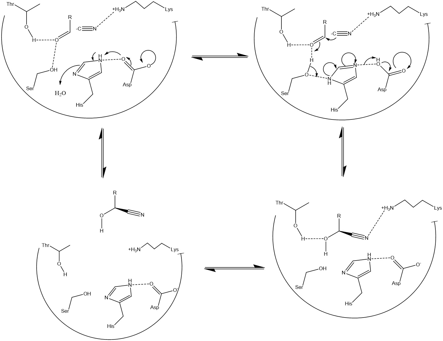 Generalized from a variety of sources, this details the general schema of cyanohydrin synthesis in an enantioselective manner via HNL enzymatic action